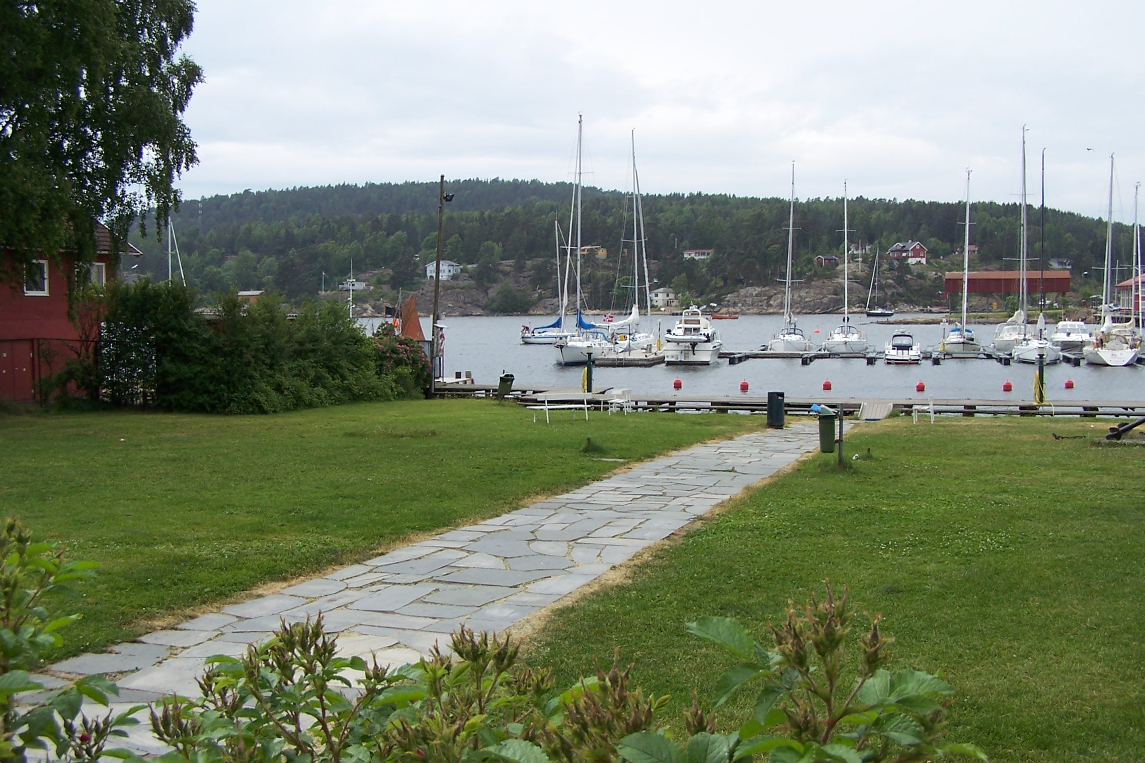 Son, Norway